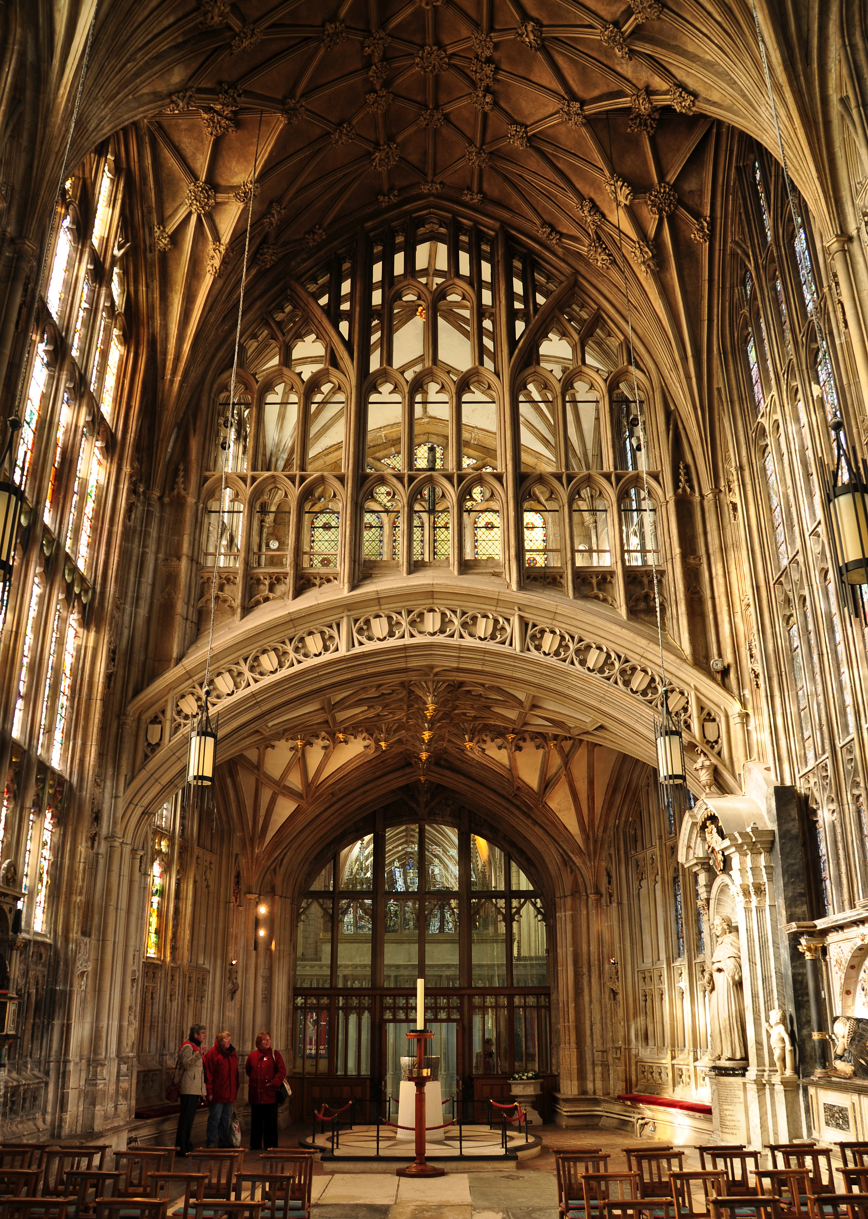 The interior of Gloucester Cathedral.